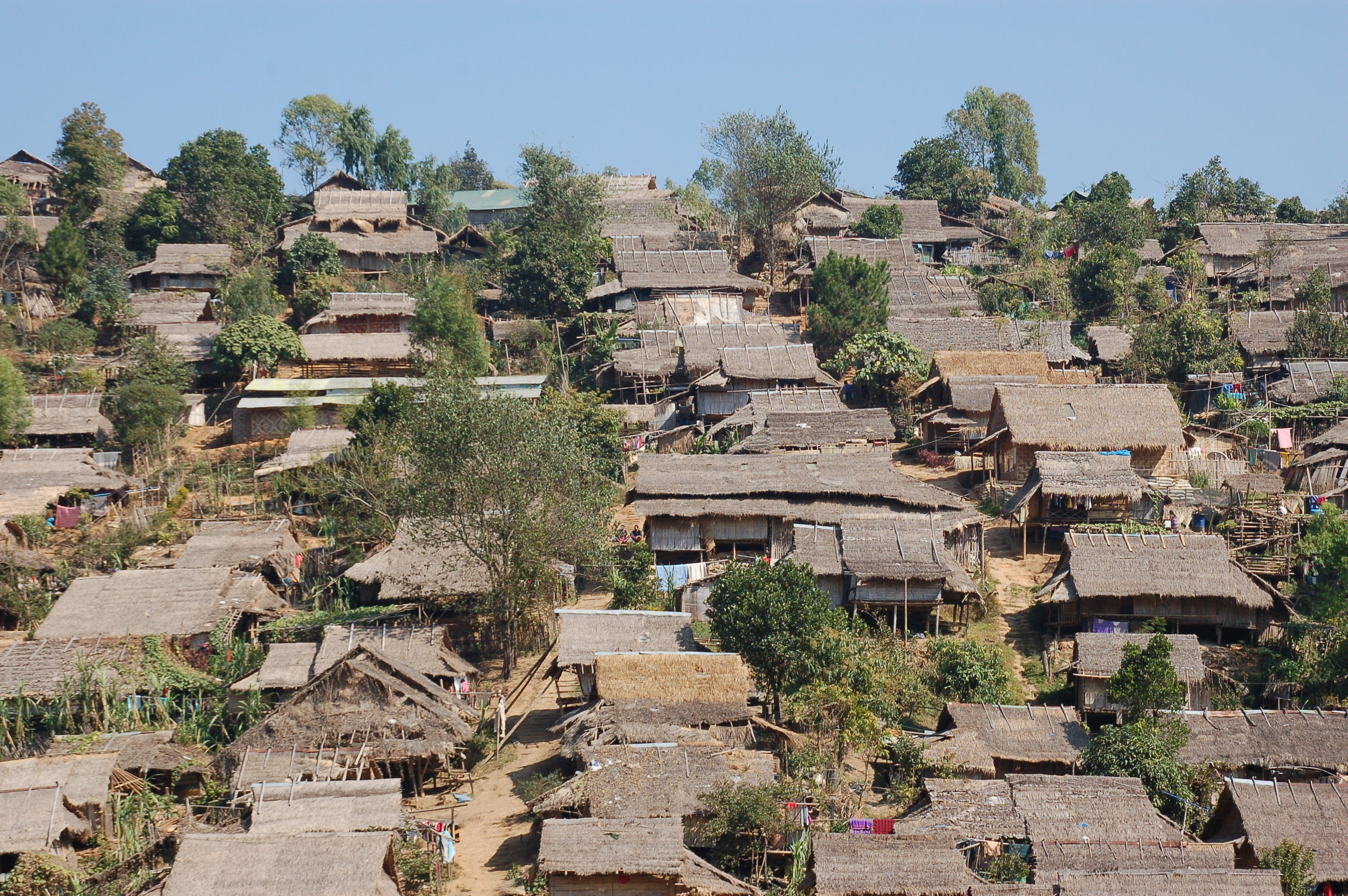 Um Piam refugee camp, Thailand